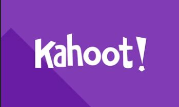 Kahoot logo